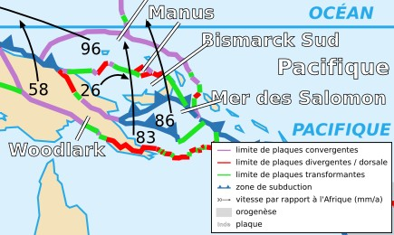 Map of the Solomon Sea Plate